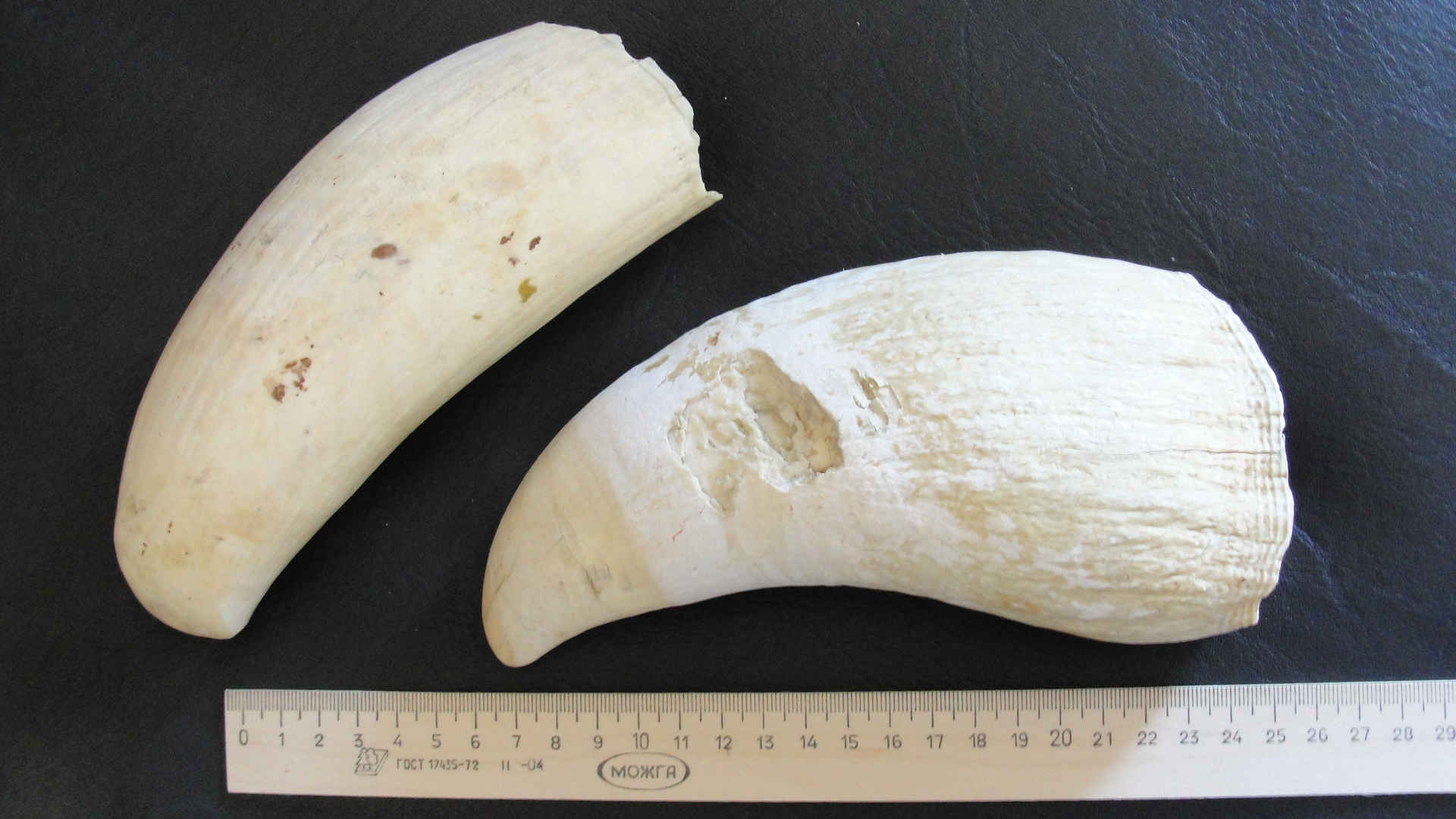 Sperm Whale Teeth (probably of 1950s catch)